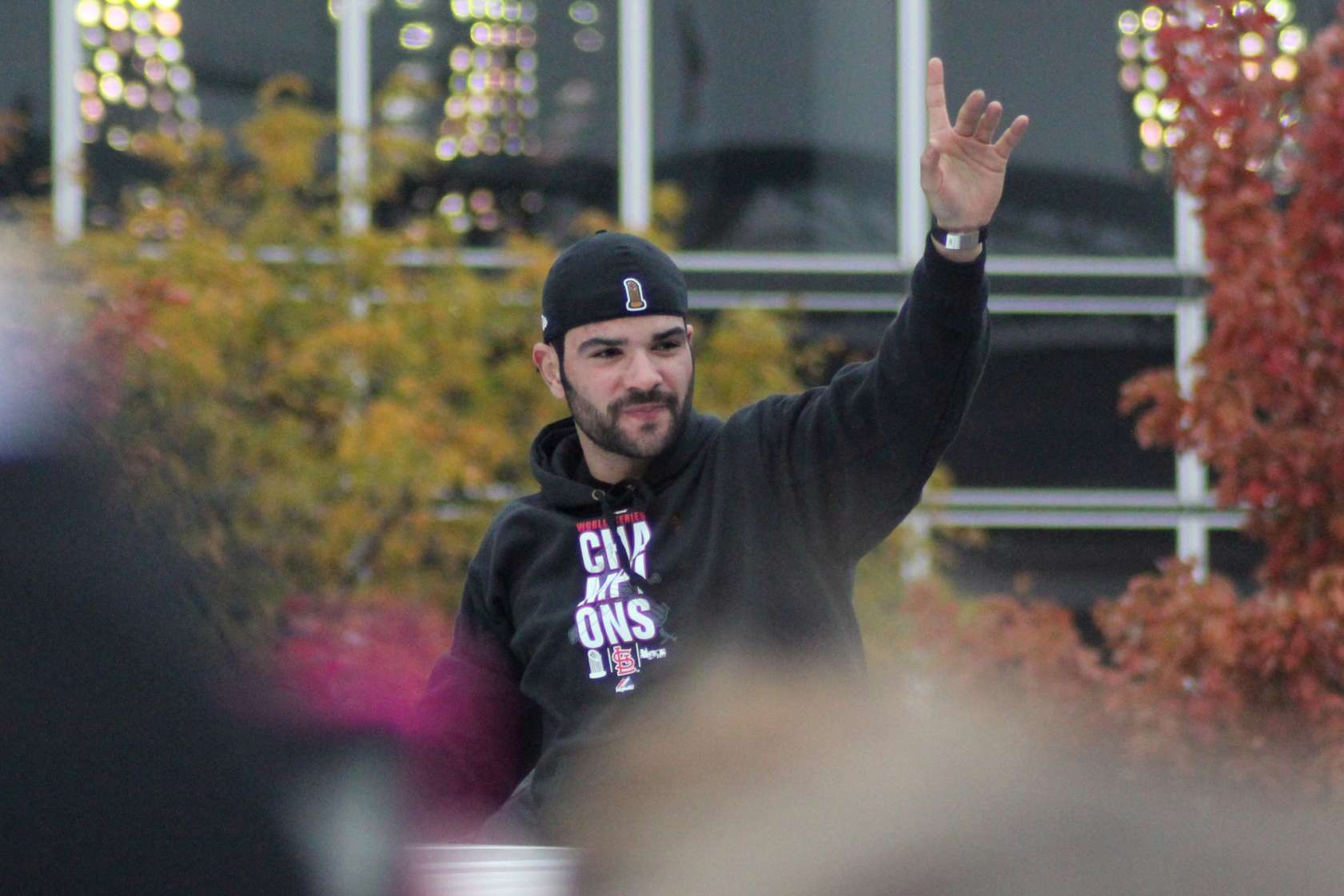 Jaime García during the 2011 World Series victory parade Saint Louis Oct 30,2011.